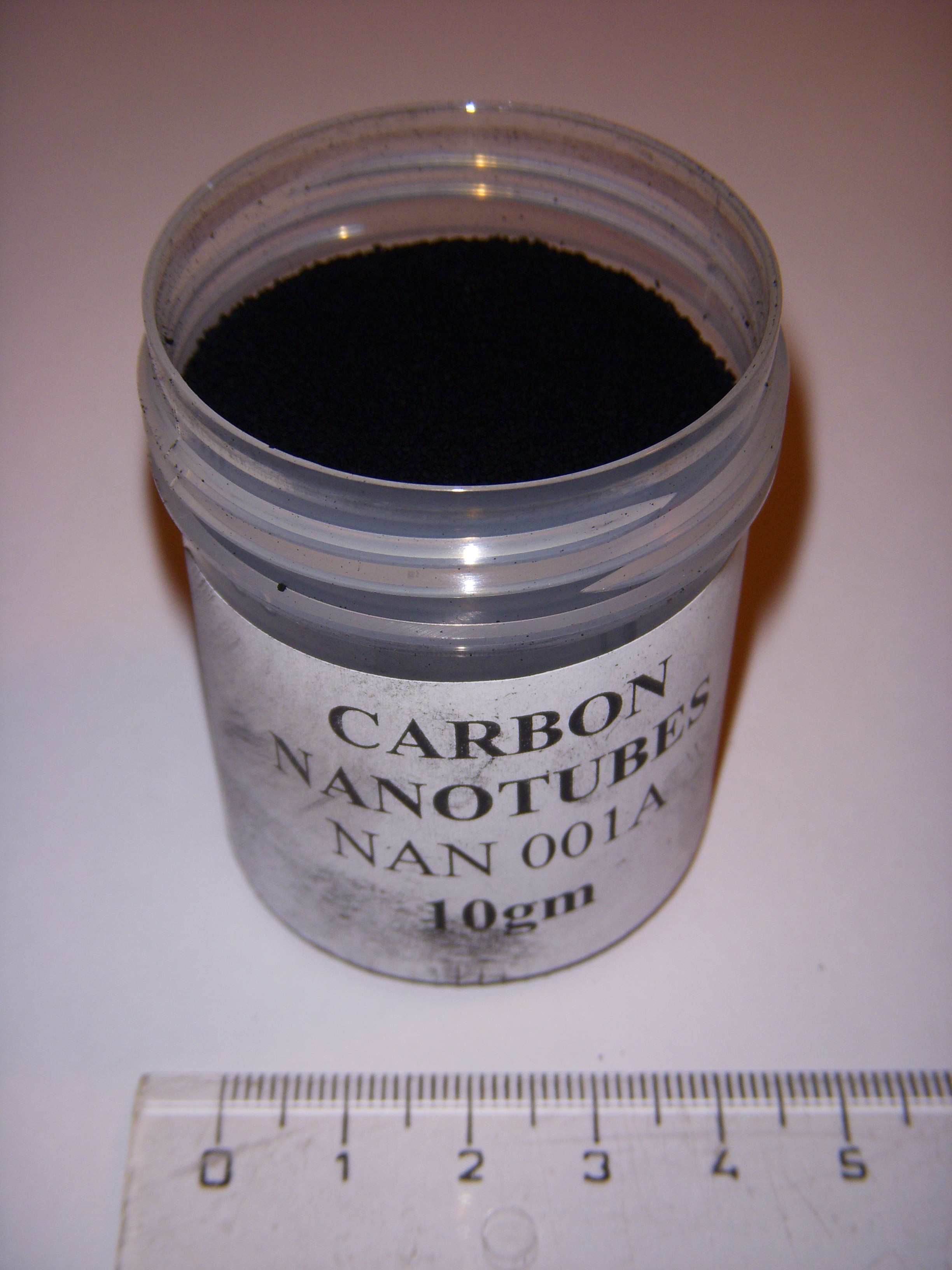 Multiwalled carbon nanotubes. 3-15 walls, mean inner diameter 4nm, mean outer diameter 13-16 nm, length 1-10+ micrometers. Black clumpy powder. 10 gram container, obtained from store. Scale in centimeters.